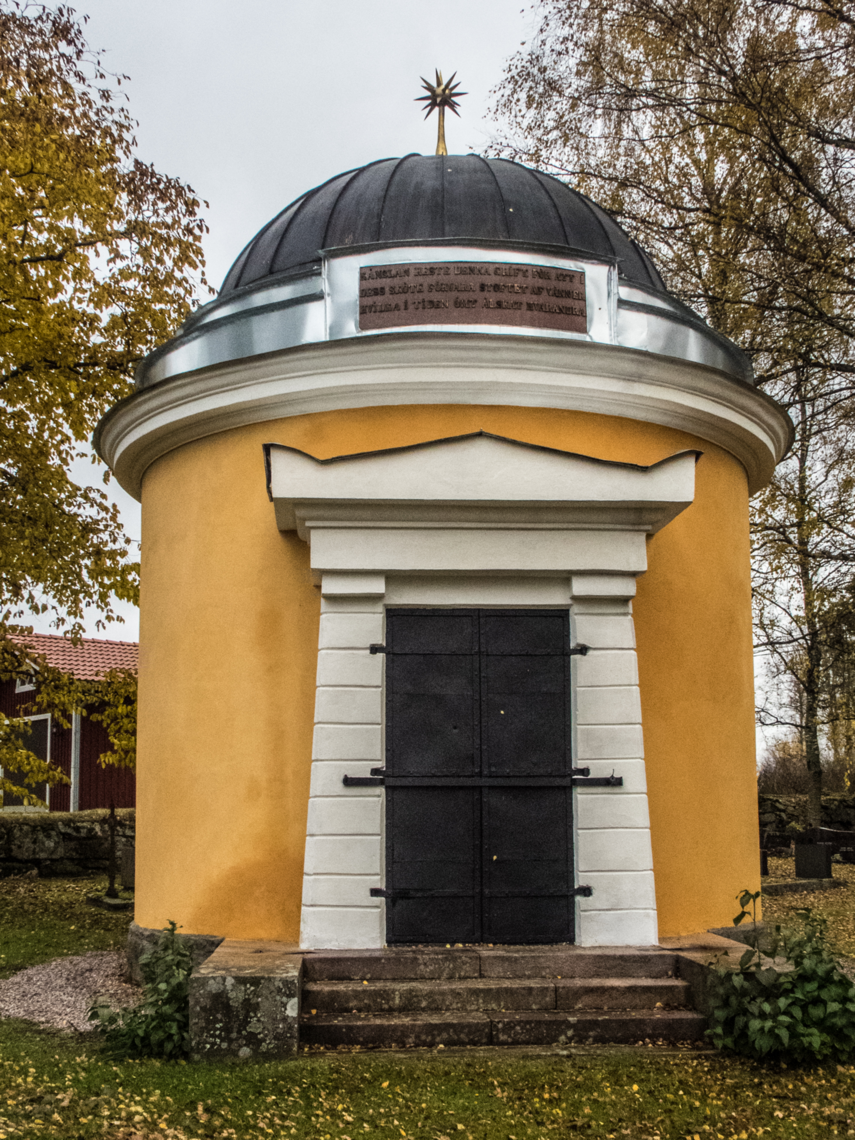 The mausoleum of the Rehbinder family, by architect Carl Ludvig Engel, built in 1824 in the churchyard of St. Jacob's Church (Pyhän Jaakobin kirkko), Paimio, Finland. The text above the door reads: "Känslan reste denna grift för att i dess sköte förvara stoftet af vänner hvilka i tiden ömt älskat hvarandra." Translation: "The feeling erected this tomb to keep in its bosom the dust of friends who once fondly loved each other."